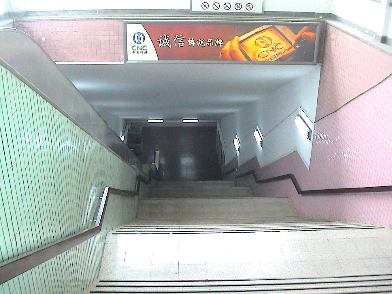 Xizhimen station, Beijing Subway line 2